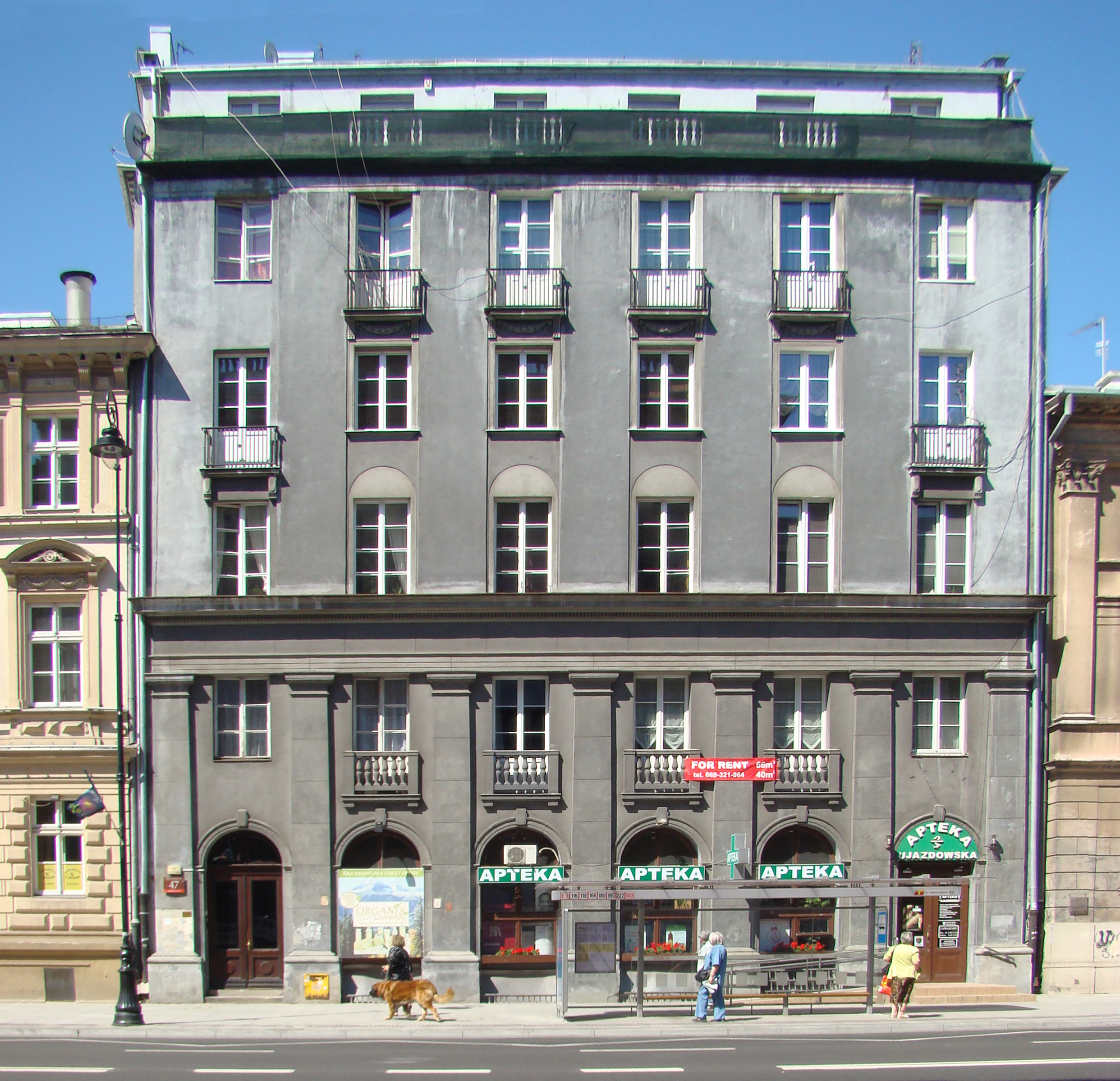 Ericsson house Warsaw - architect Marian Lalewicz